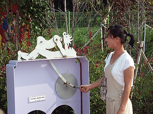 Interactive sculpture at Love Land park in South Korea, being operated by the photographer's wife, Hyun-Ju